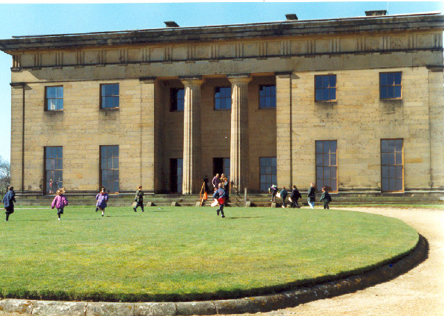 Photograph